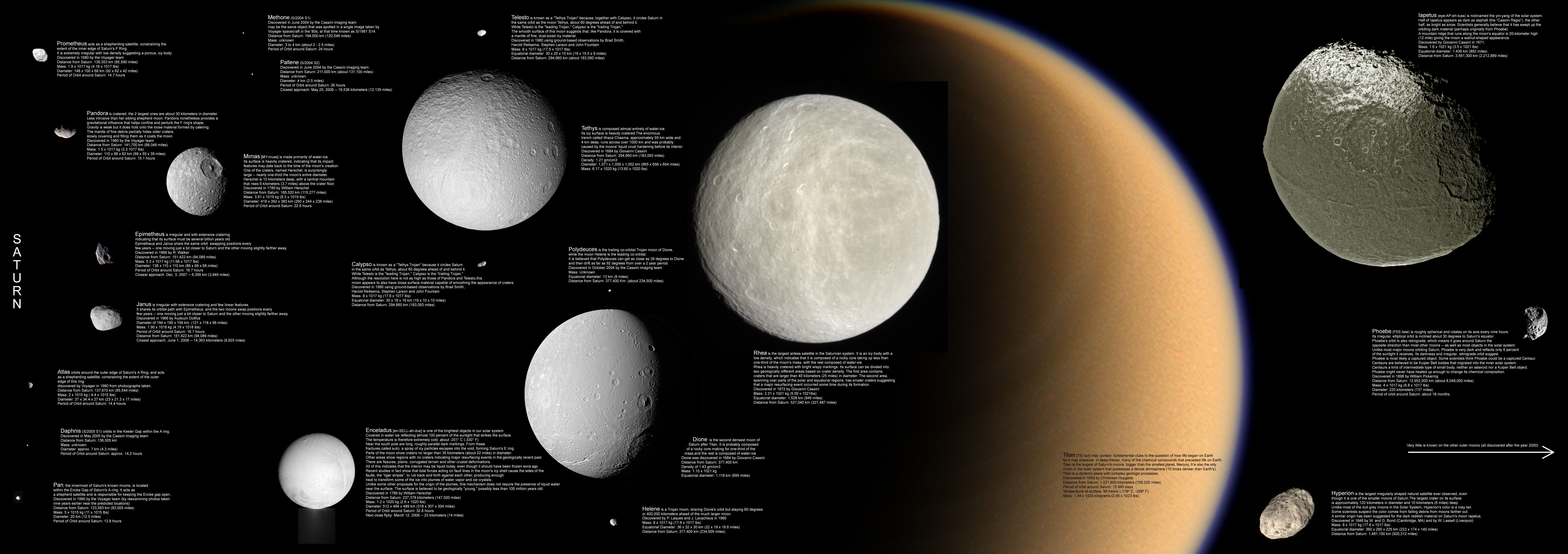 This double A4 image was created by Francesco Ruspoli using public domain NASA pictures. The moons are shown roughly to scale. Although the moons are shown in the correct order, the illustrated distance between each moon is not to scale.